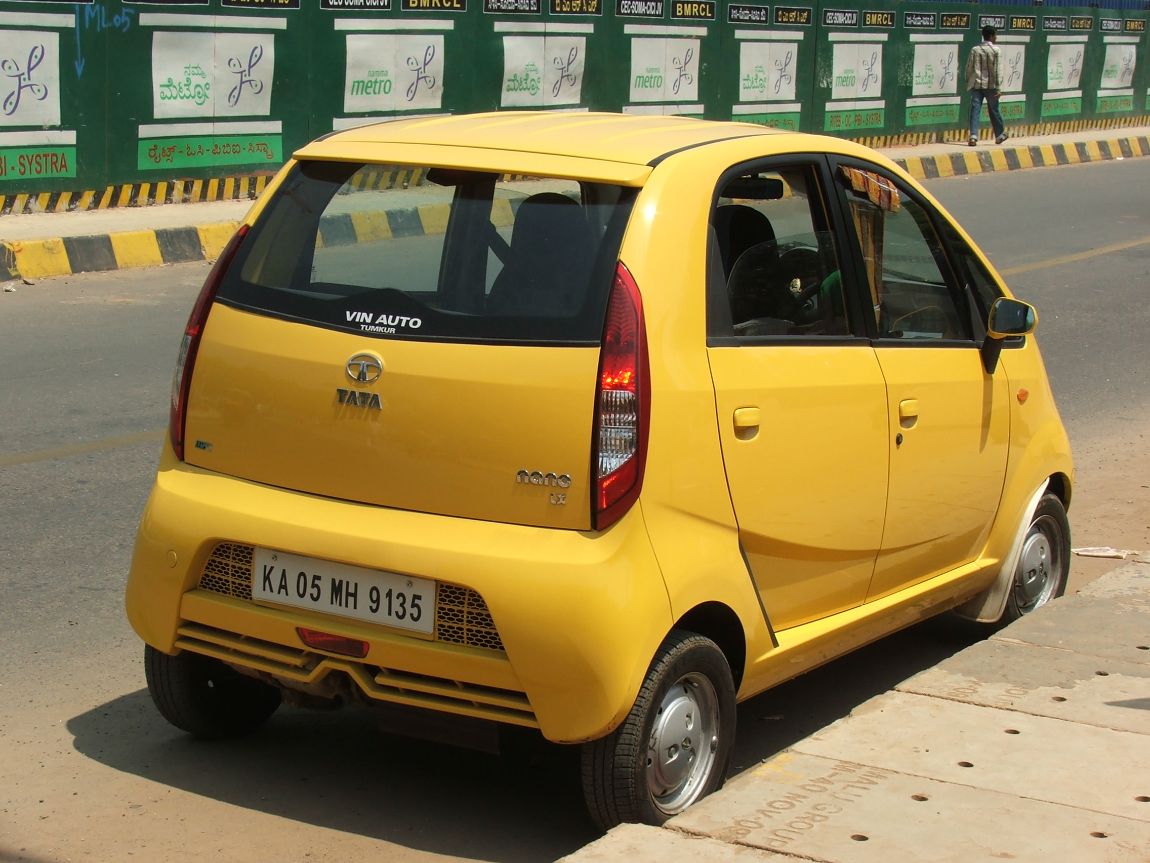 Tata Nano in the streets of Bangalore.